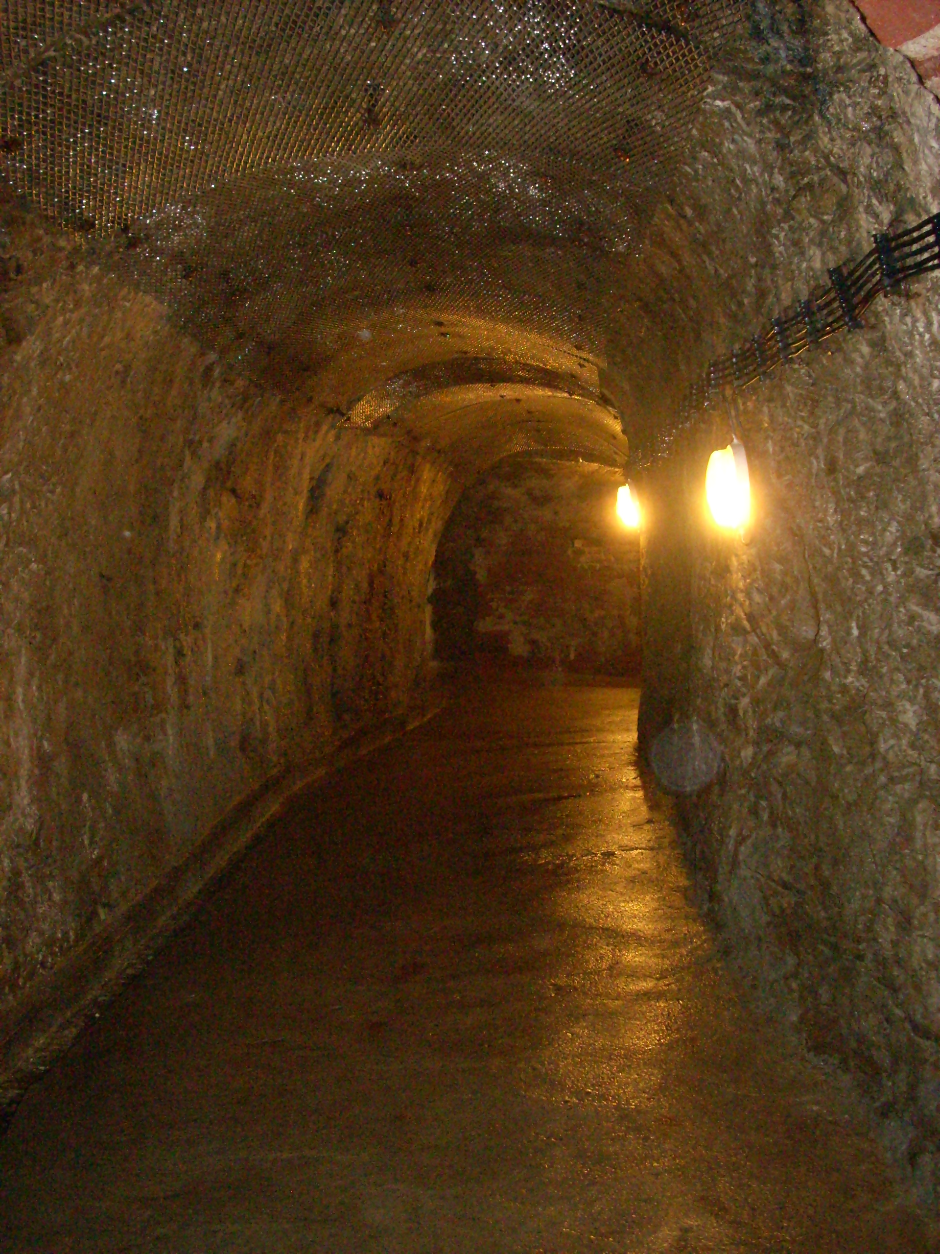 Shining corridor in Jihlava´s underground (from across the corridor)